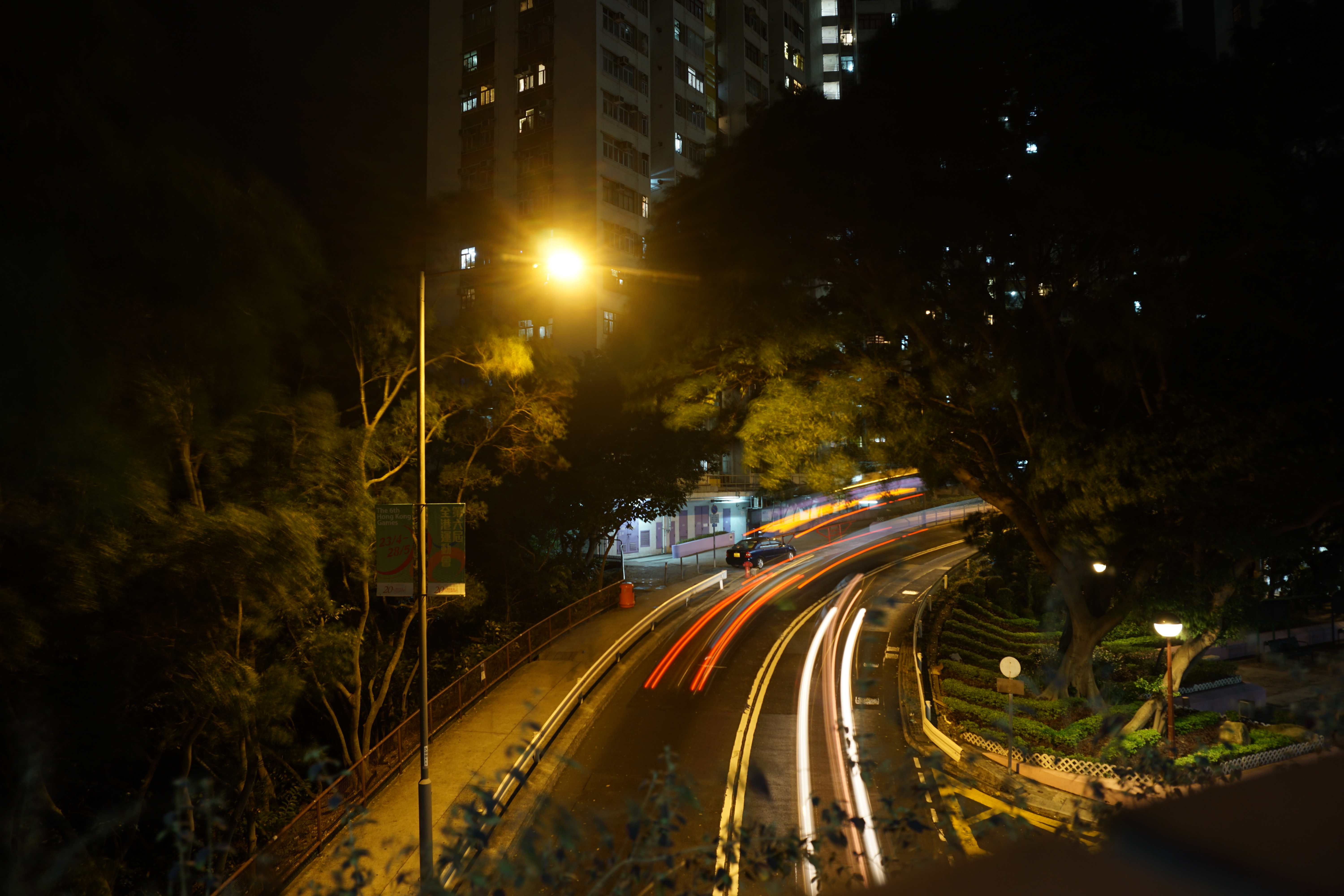 Lei Tung Estate Road in Ap Lei Chau, Hong Kong.